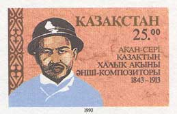 Stamp of Kazakhstan